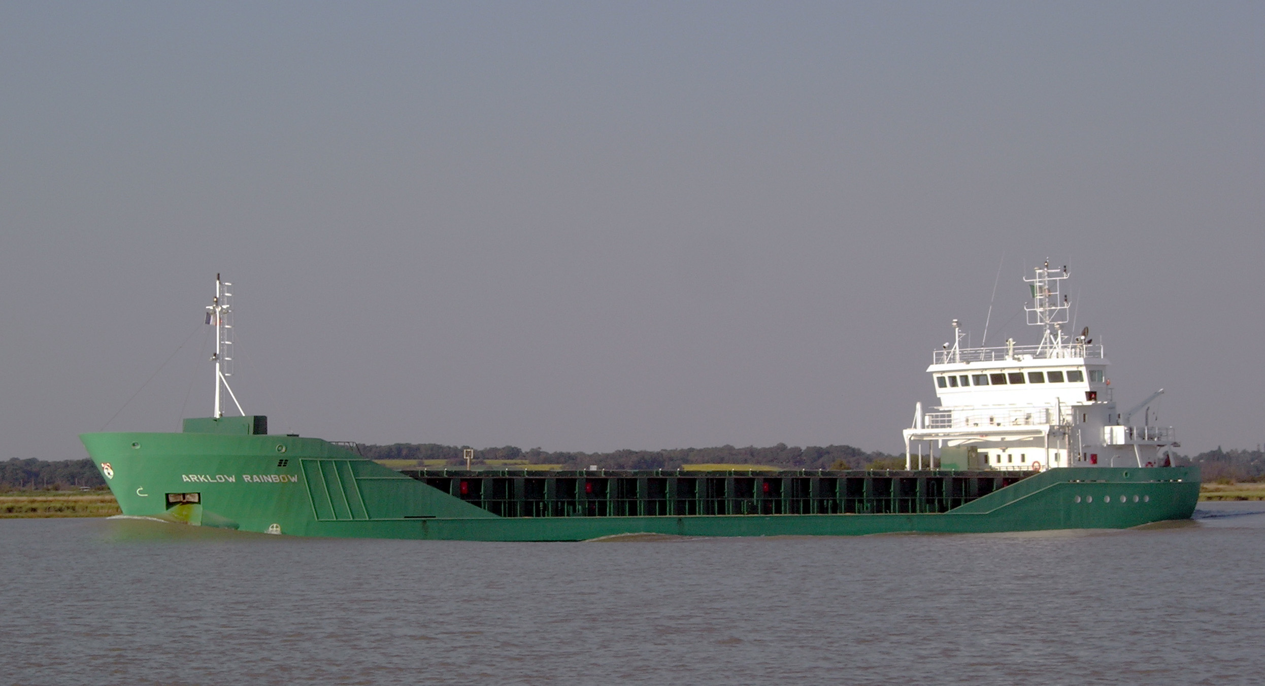 Description =Arklow Rainbow (IMO-Nummer: 9344497) dans la Charente Source =Photo taken by Remi Jouan Date = Juillet 2006 Author =Remi Jouan